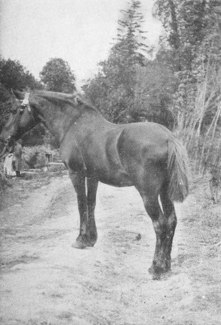 Lignol, a 23 years-old bidet breton, in Antoine-Auguste (Commandant) Saint-Gal de Pons, Origines du cheval breton. Le Haras de Langonnet. Les Dépôts de Lamballe et d'Hennebont. Le Dépôt de remonte de Guingamp, Quimper, Celjoarion. Author unknown.